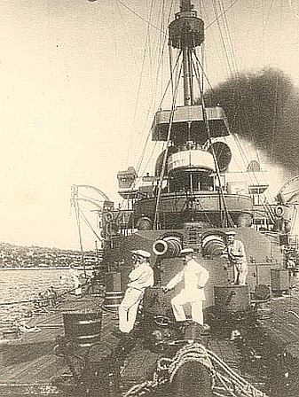 SMS Budapest, at a buoy maneuvers with the painter Alexander Kircher on the bow - 1902